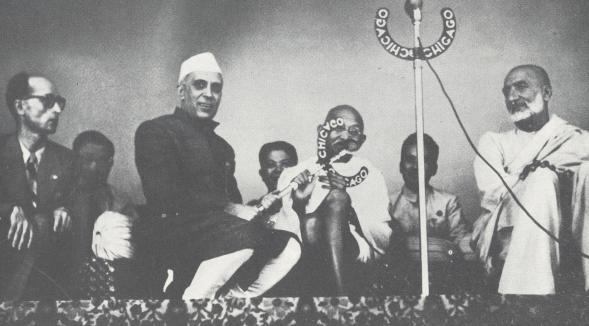 Jawaharlal Nehru at the Asian Relations Conference, Delhi, March-April, 1947. With Gandhiji and Abudl Ghaffar Khan